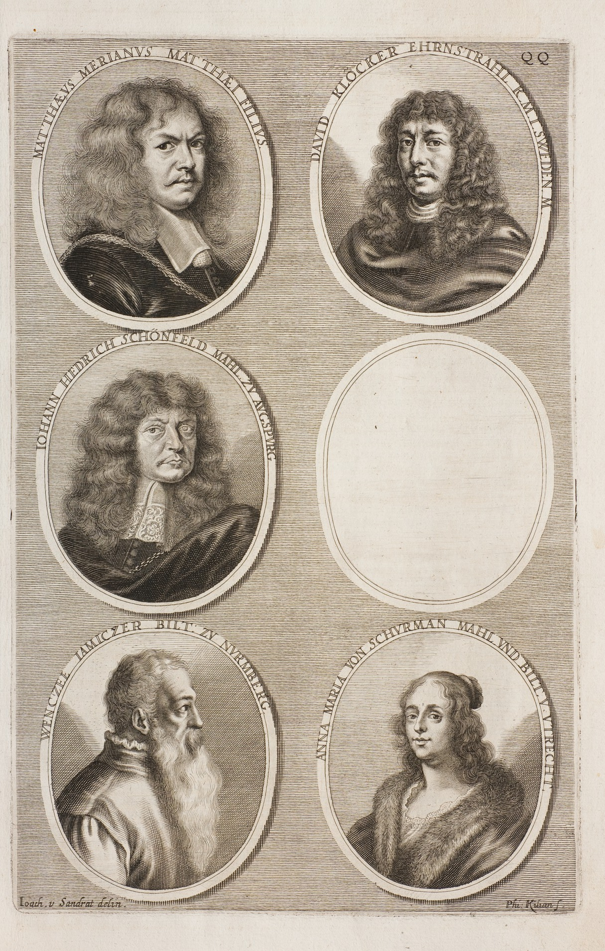 Engraving from the German Academy of the Noble Arts of Architecture, Sculpture and Painting, or Teutsche Academie, a comprehensive dictionary of art by Joachim von Sandrart, published in 1675 and later illustrated with engravings in 1683 Mattheus Merian the younger, David Klocker, Johann Hendrik Schonfeld, Wenzel Jamnitzer, Anna Maria Schurman